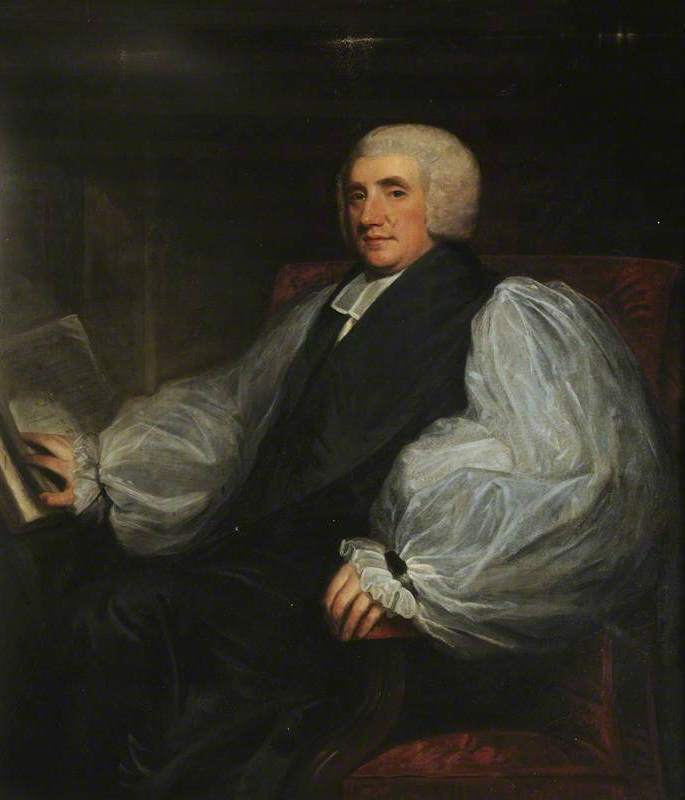 Edward Venables-Vernon-Harcourt, Archbishop of York